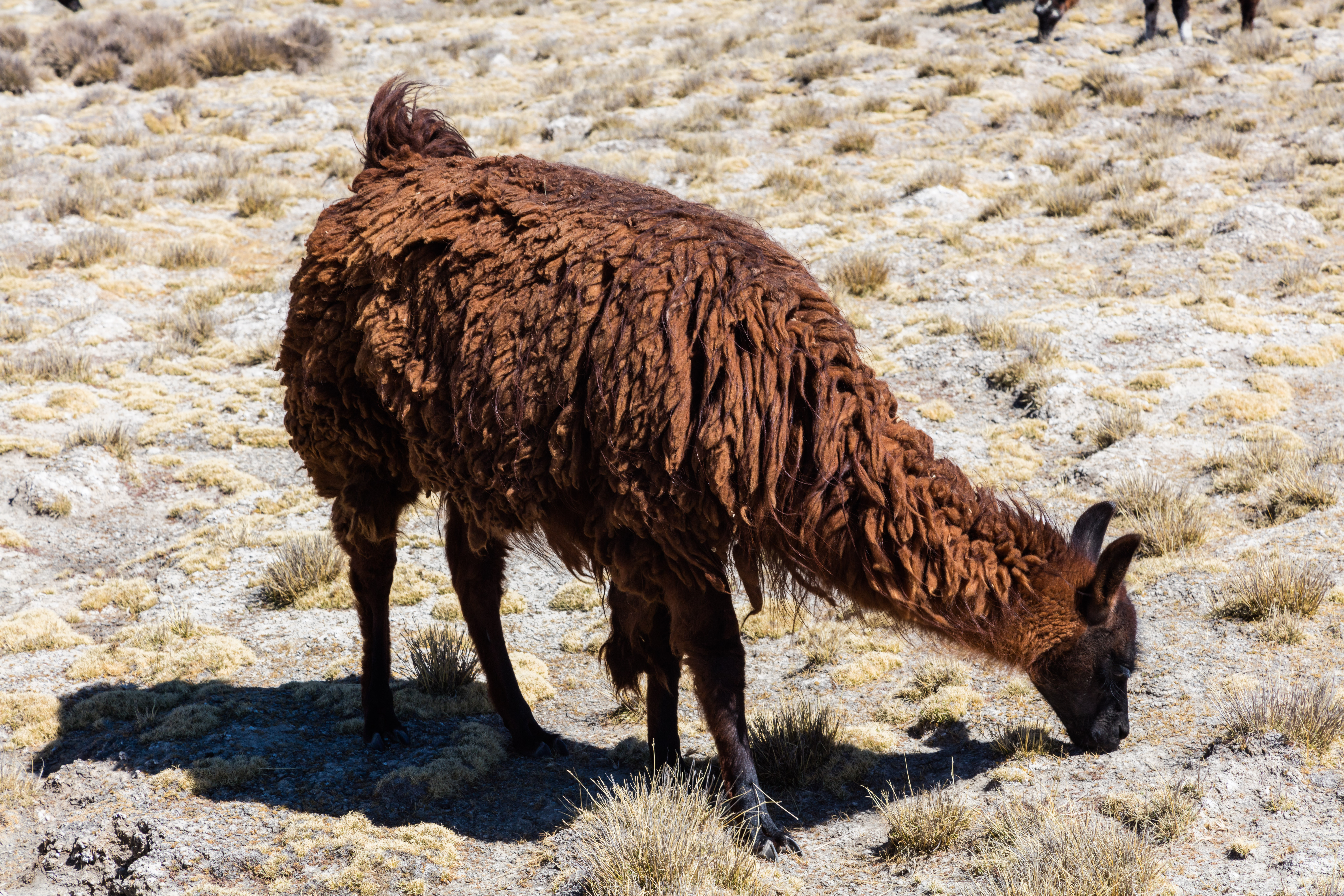 Alpaca (Vicugna pacos), Salinas Lagoon, Arequipa, Peru